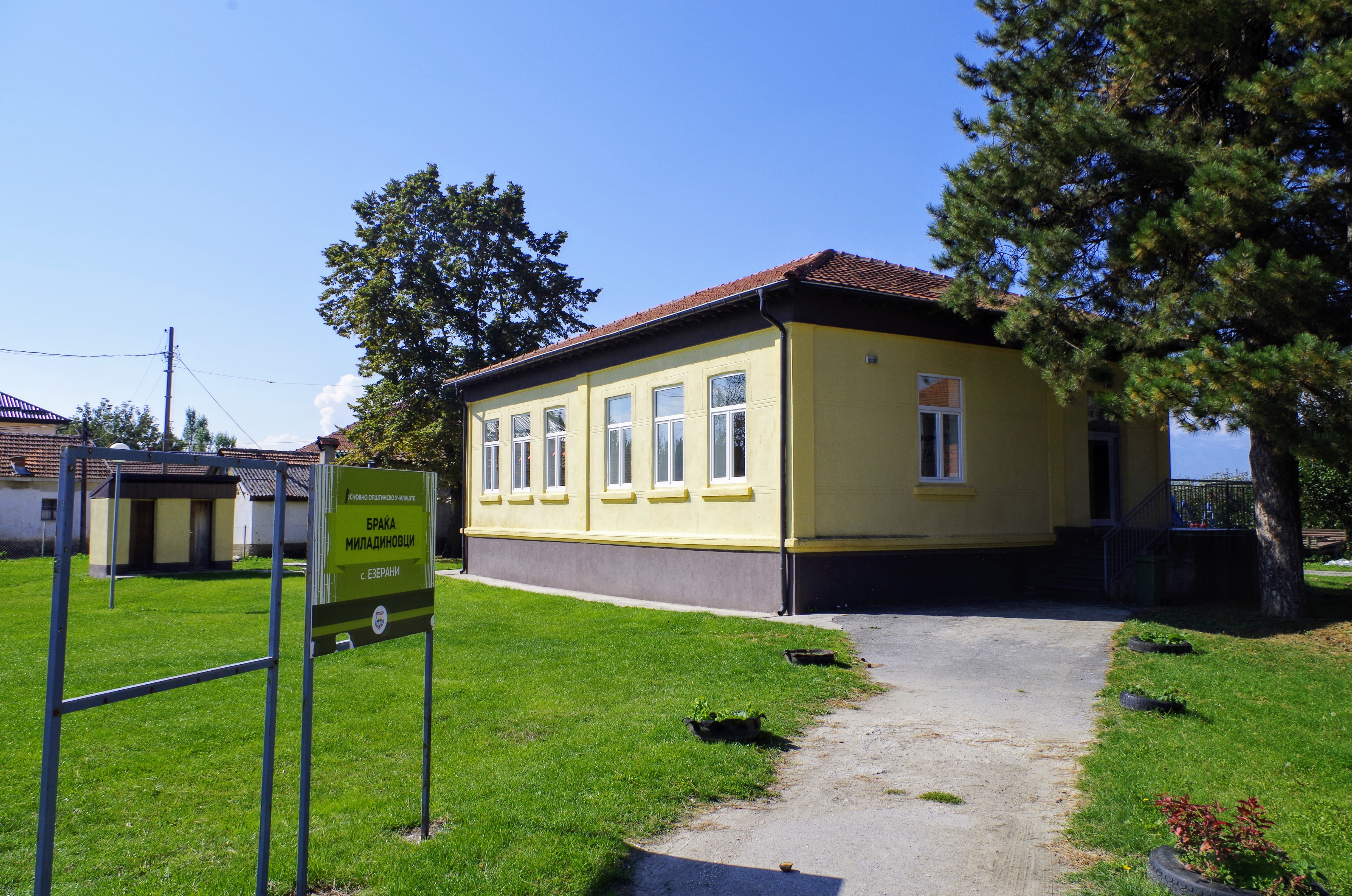 View of the primary school in the village Ezerani